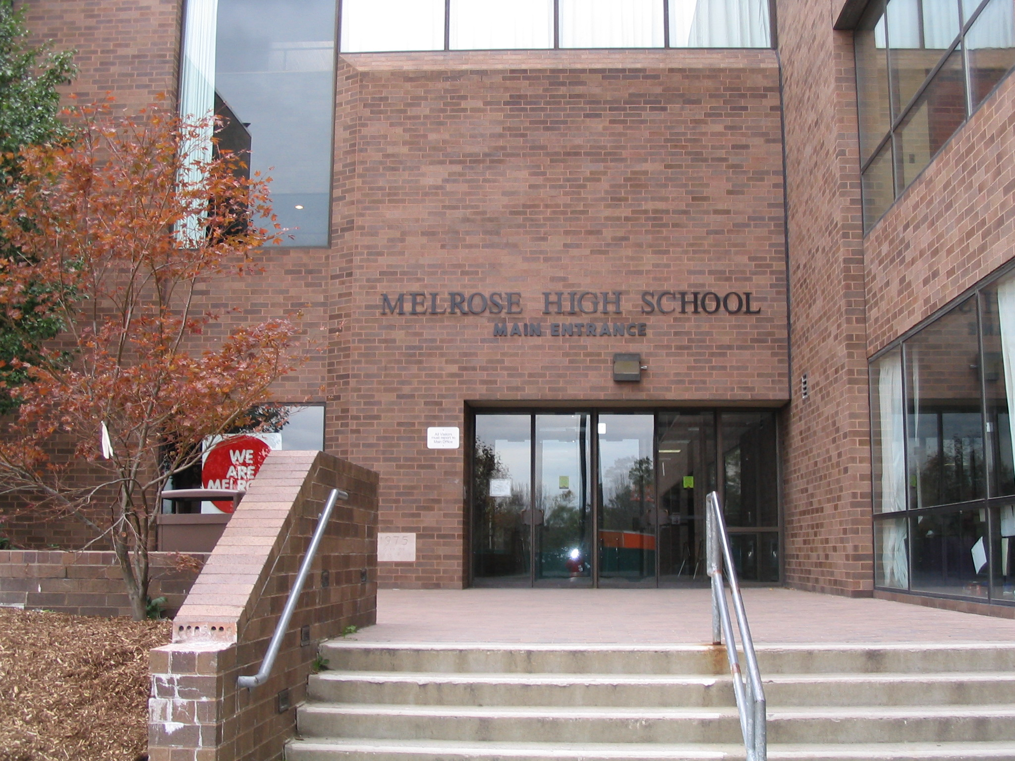 Picture of the entrance to Melrose High School in Massachusetts